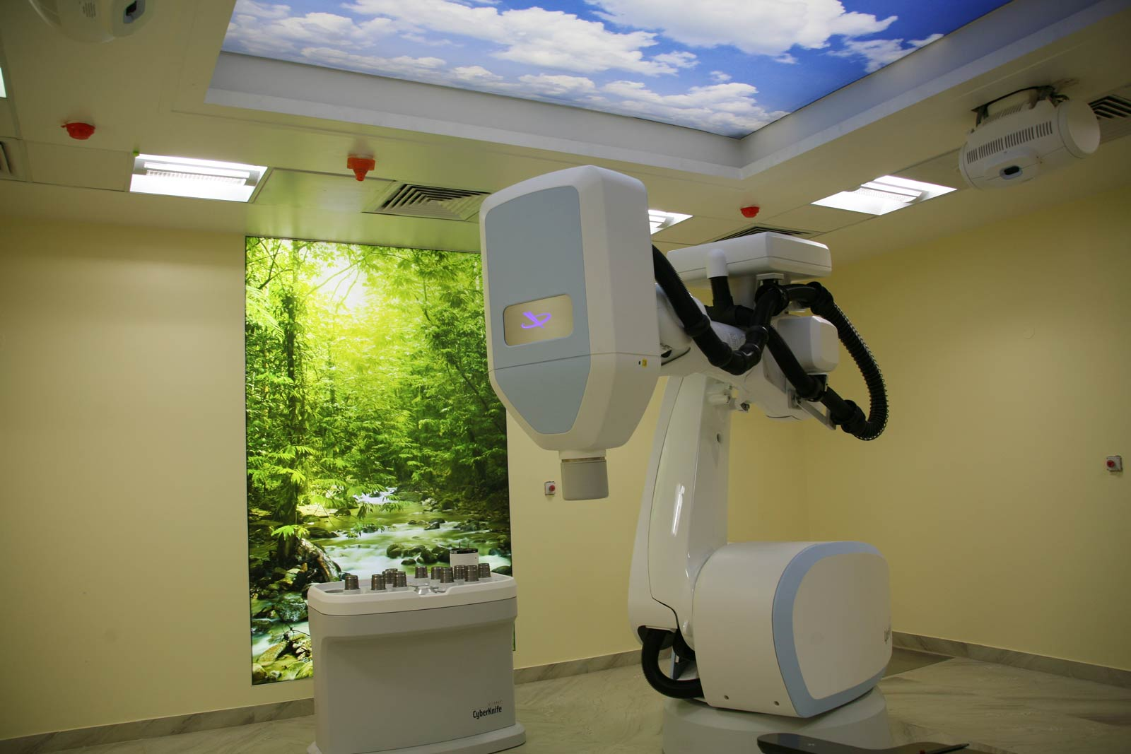 CyberKnife is a new Radiation Therapy technology to treat certain types of cancer and tumor. There are a few such machines in hospitals with excellent infrastructure. These treatment procedures are quite patient friendly and have minimal side effects compared to chemotherapy, pain involved in surgical procedures, and the dangers of ingested nuclear medicine. Most of the people are not aware of this alternative.